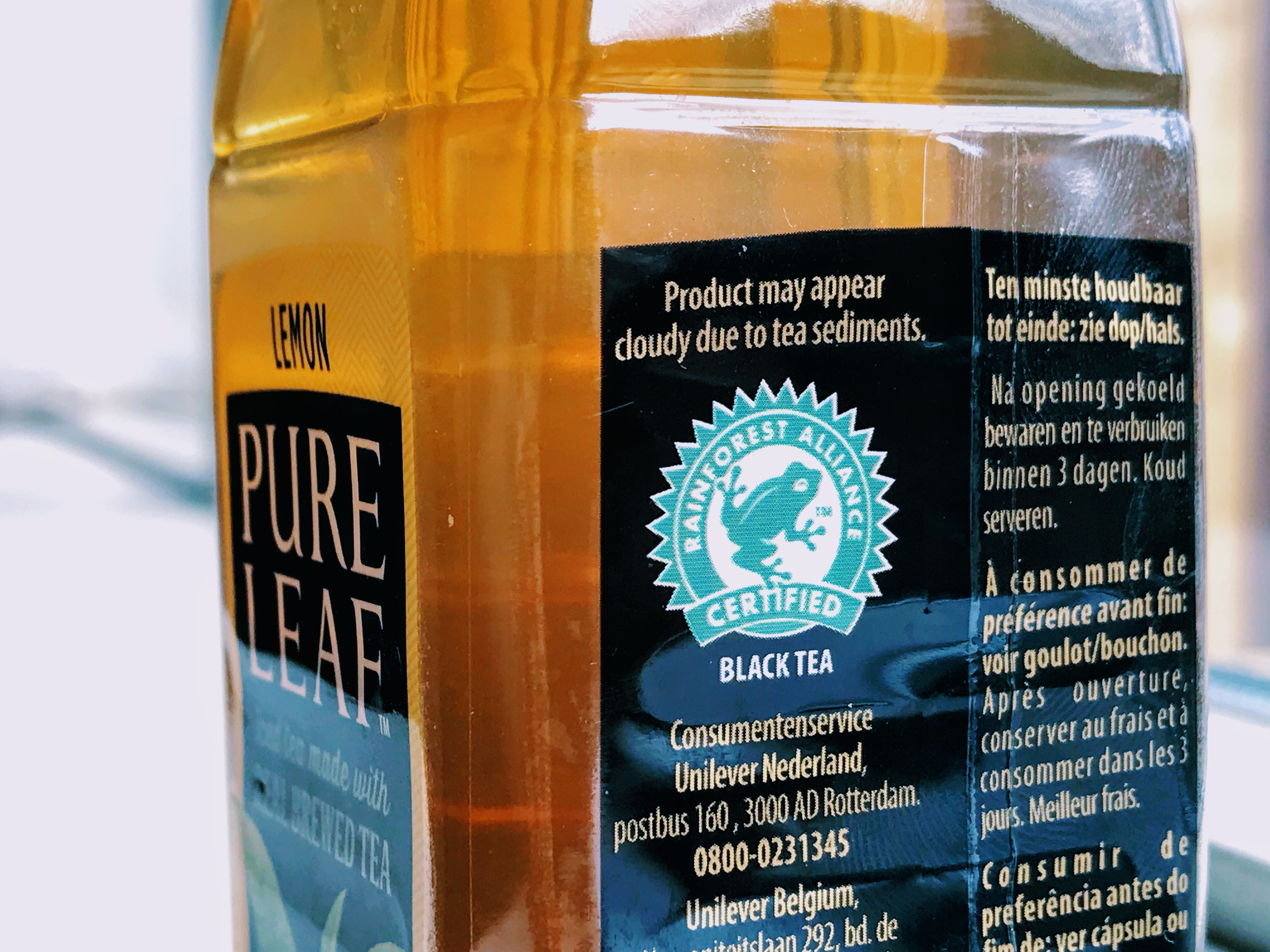 Rainforest Alliance Certified logo on PureLeaf ice tea